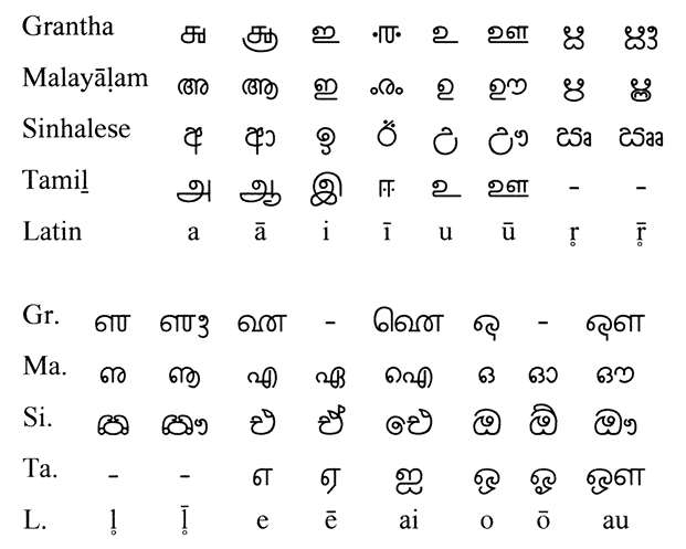 Grantha script vowel comparison with Malayalam, Tamil, Sinhala